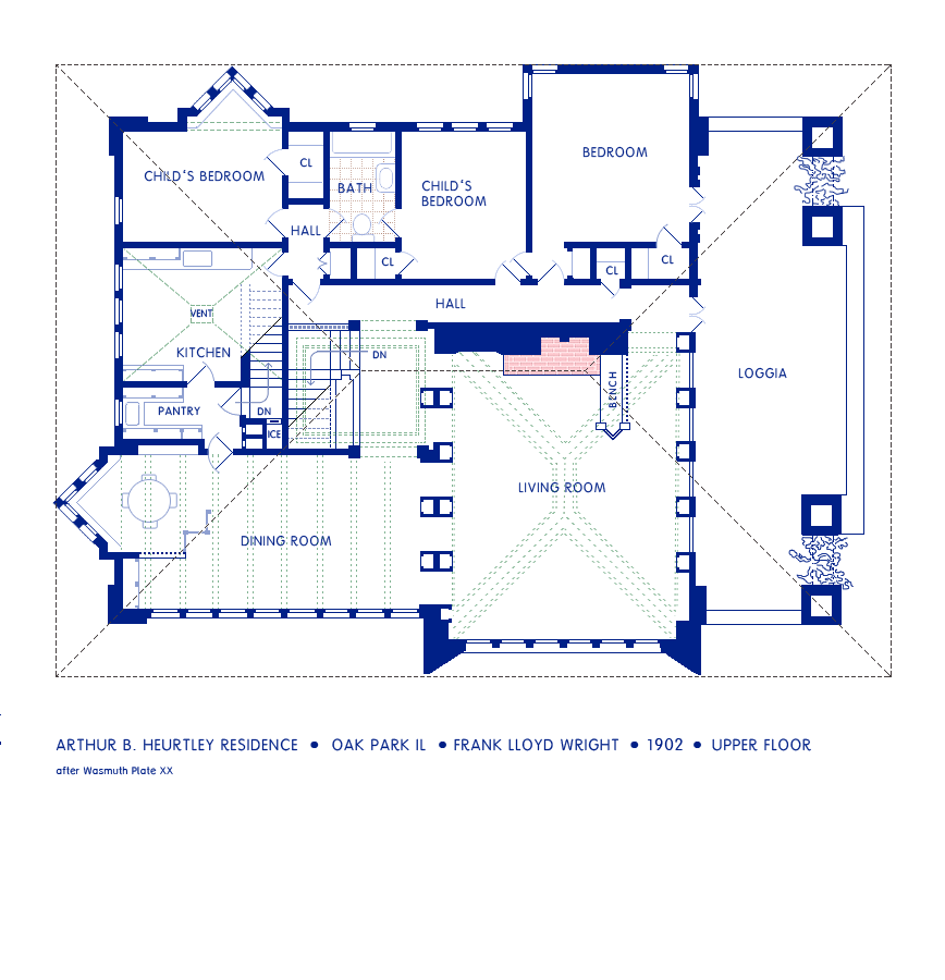 Upper floor plan of the Arthur Heurtley residence, Oak Park IL, designed by Frank Lloyd Wright, 1902. After Wasmuth Plate XX.